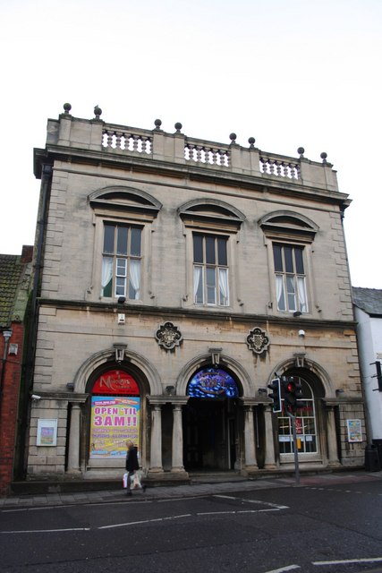 Corn Exchange Former Corn Exchange Grantham of 1852, now a nightclub